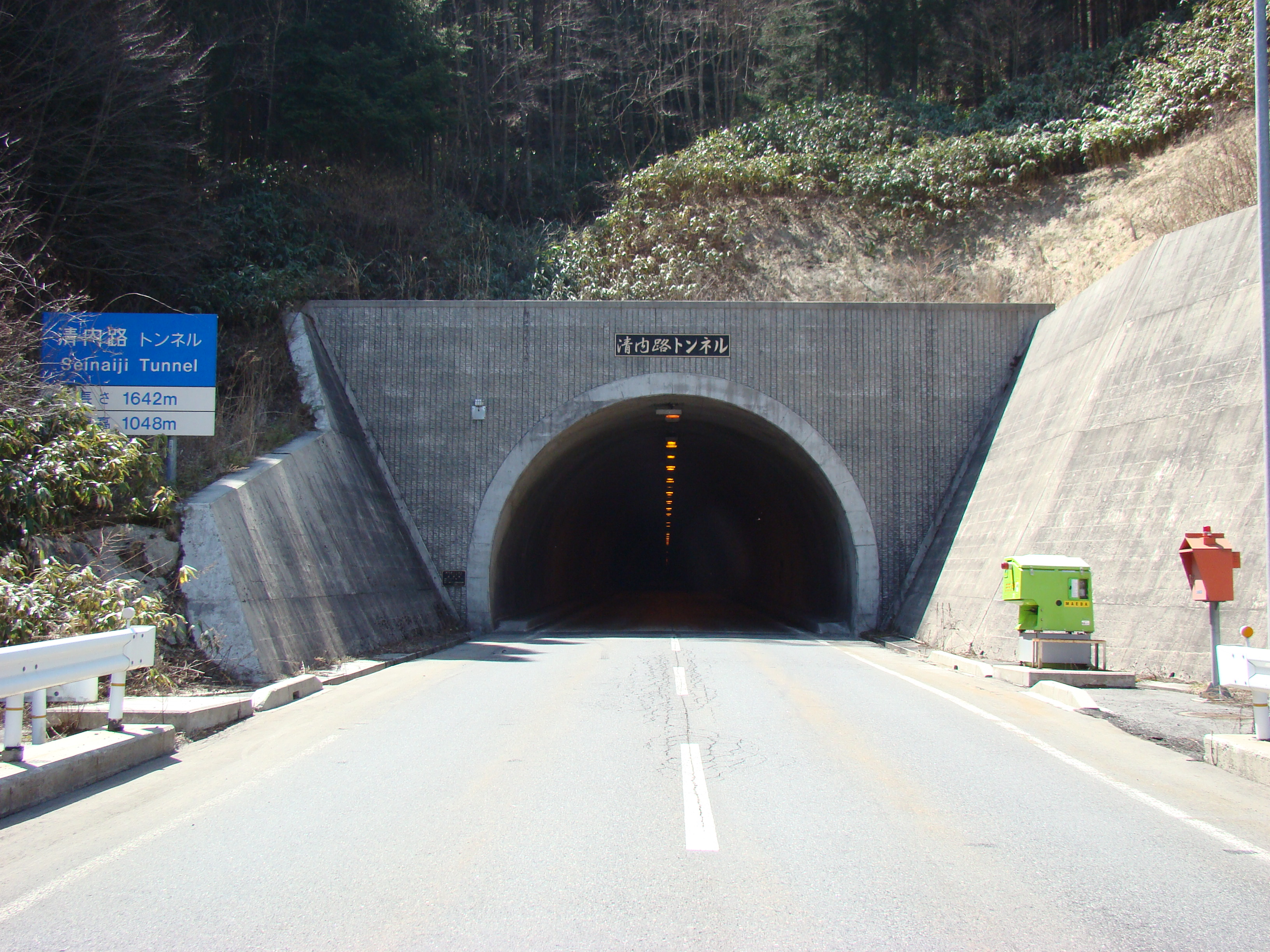 Route 256 Seinaiji Tunnel Place - Azuma,Nagiso Town,Kiso County,Nagano Prefecture,Japan Date - April 10, 2009 Format - JPEG, 3264x2448pixel, 24bit colors Photographer - NALA Wiki (talk)